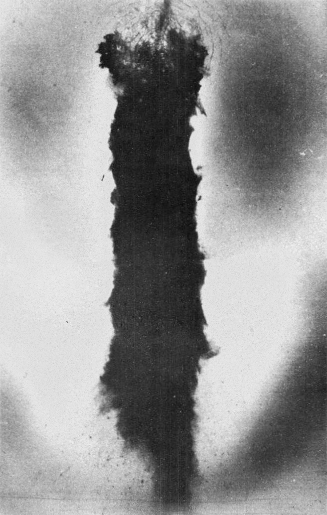 Aerial photograph of blackened area of ice where a B-52 carrying 4 nuclear weapons crashed near Thule Air Base on January 21, 1968.